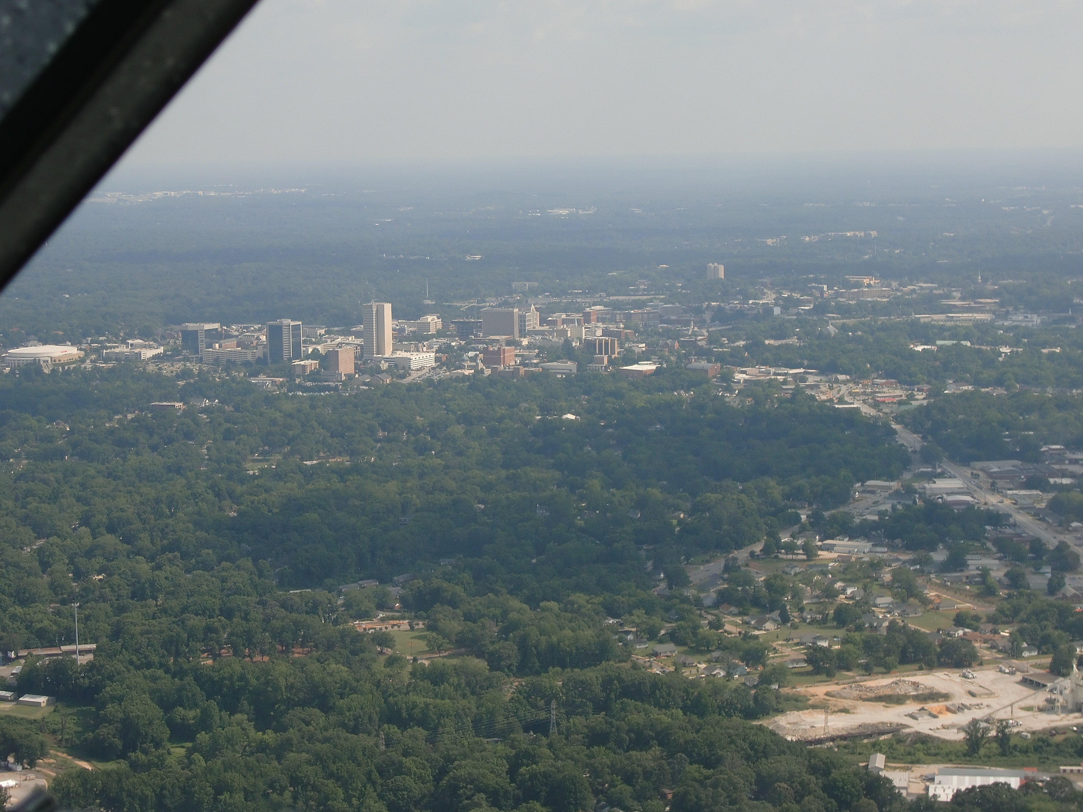 Downtown Greenville from the air.